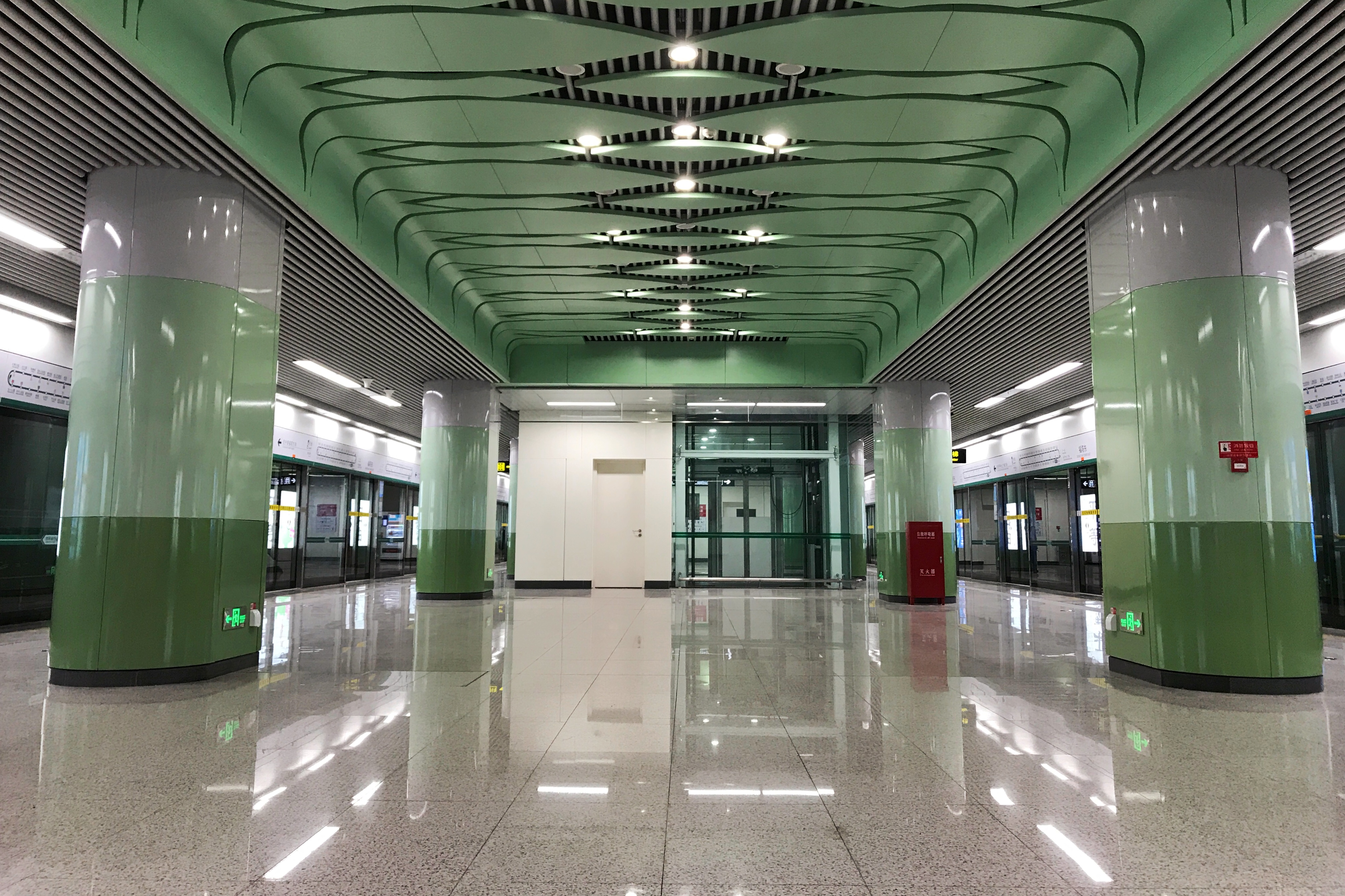 Platform of Line 5 at Zhongyuan Tower East Station